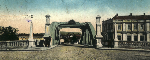 The Bridge in City of Kragujevac